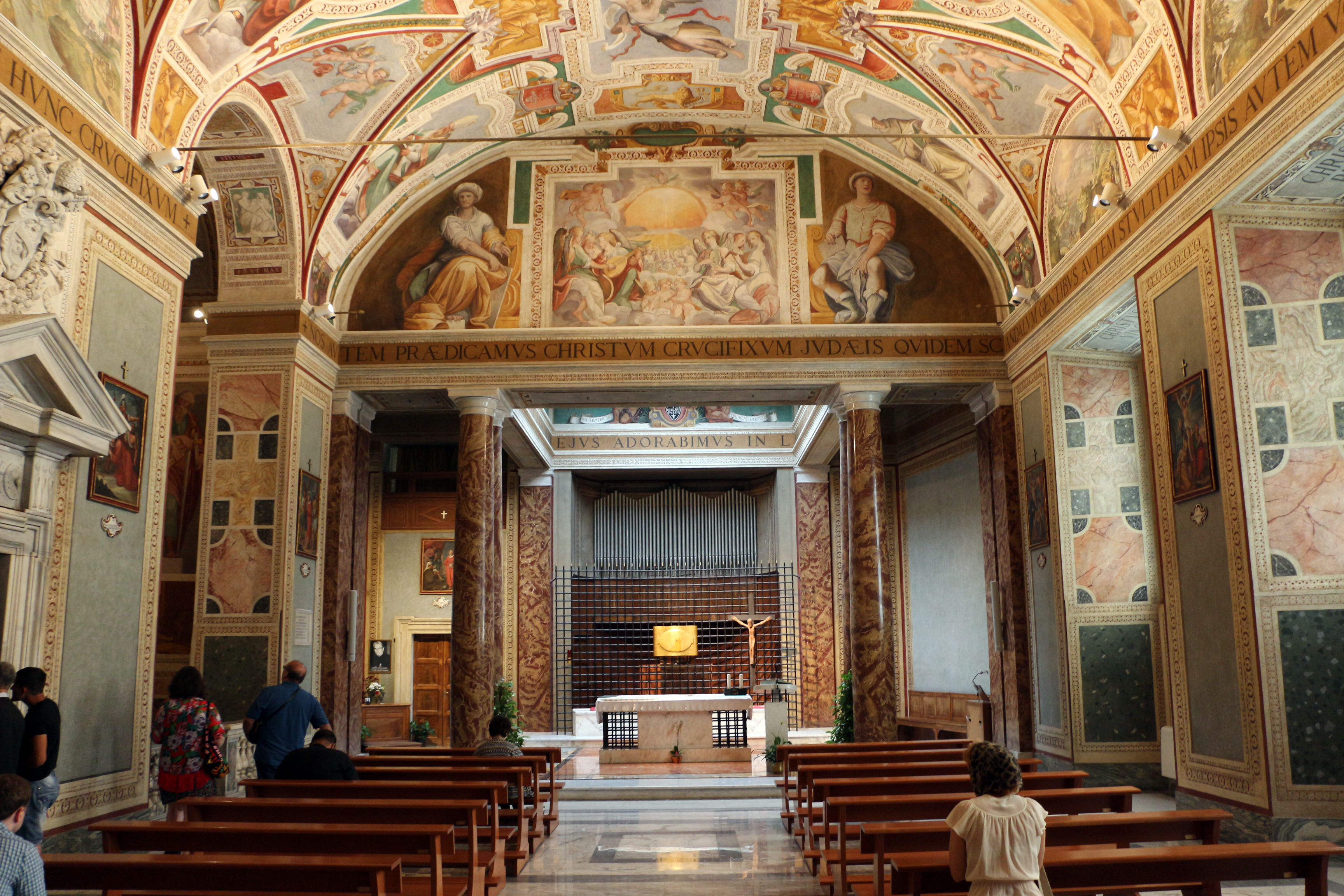 Scala Santa (Rome)